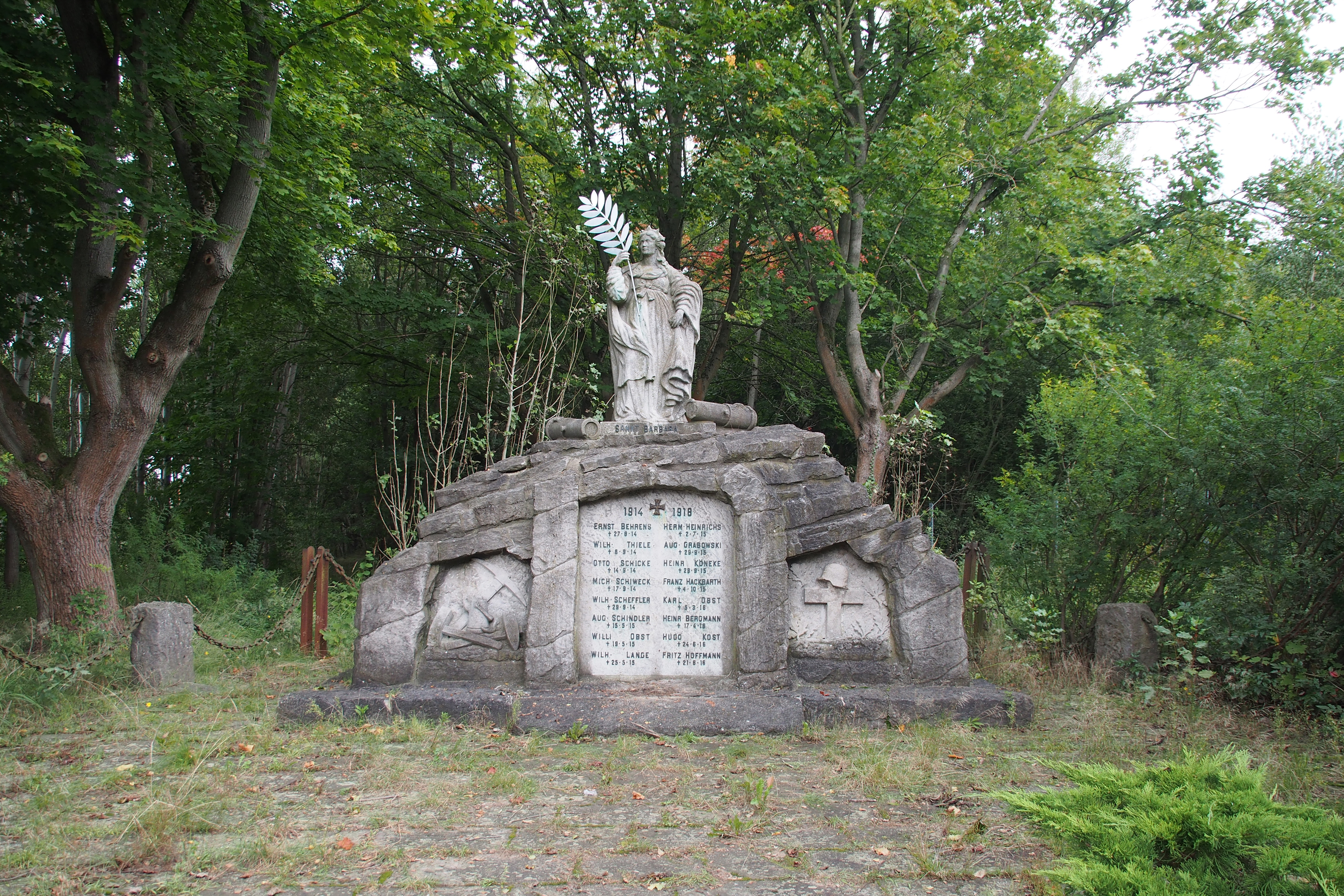 1914-18 war memorial in Höfer, Lower Saxony, Germany, with Saint Barbara